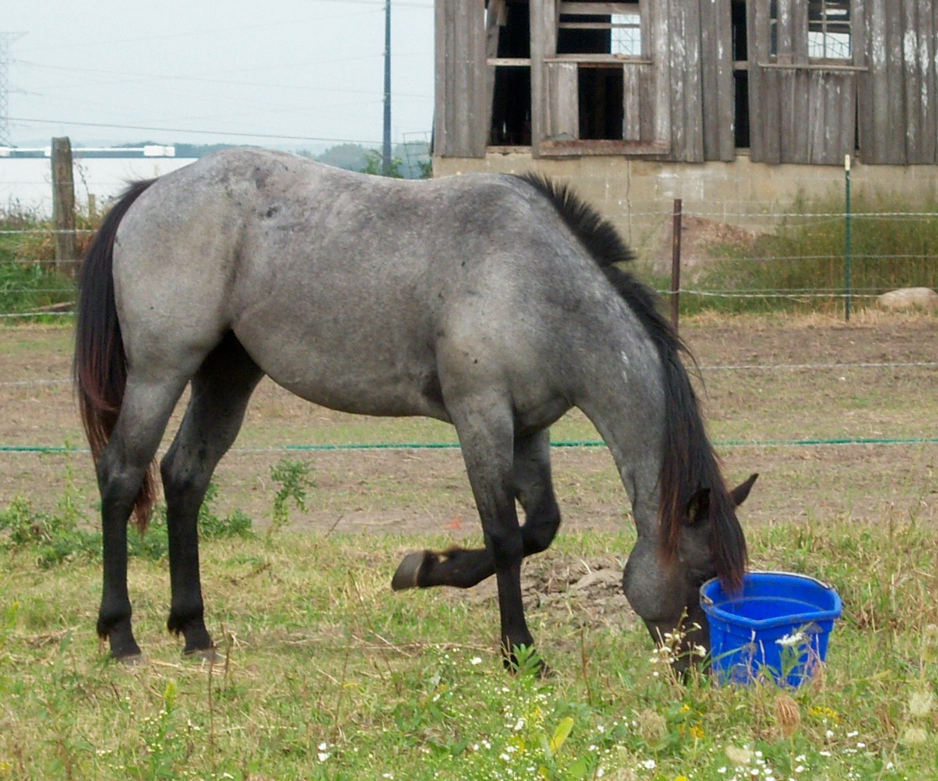 Blue Roan Quarter horse